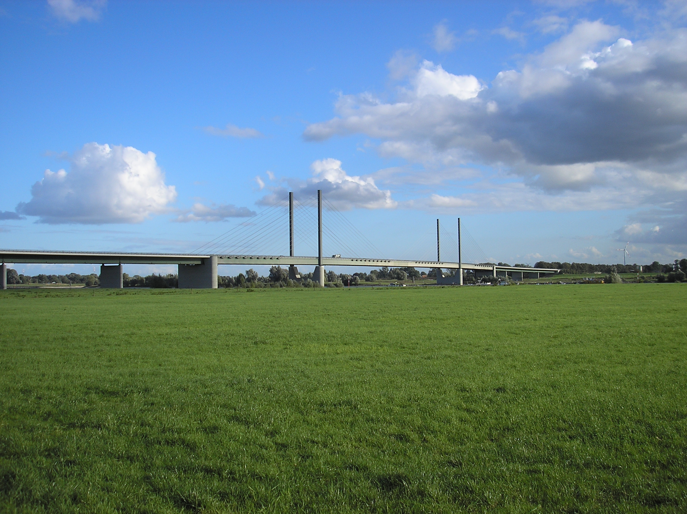 Bridge over the river Rhine between the German towns of Rees and Kalkar